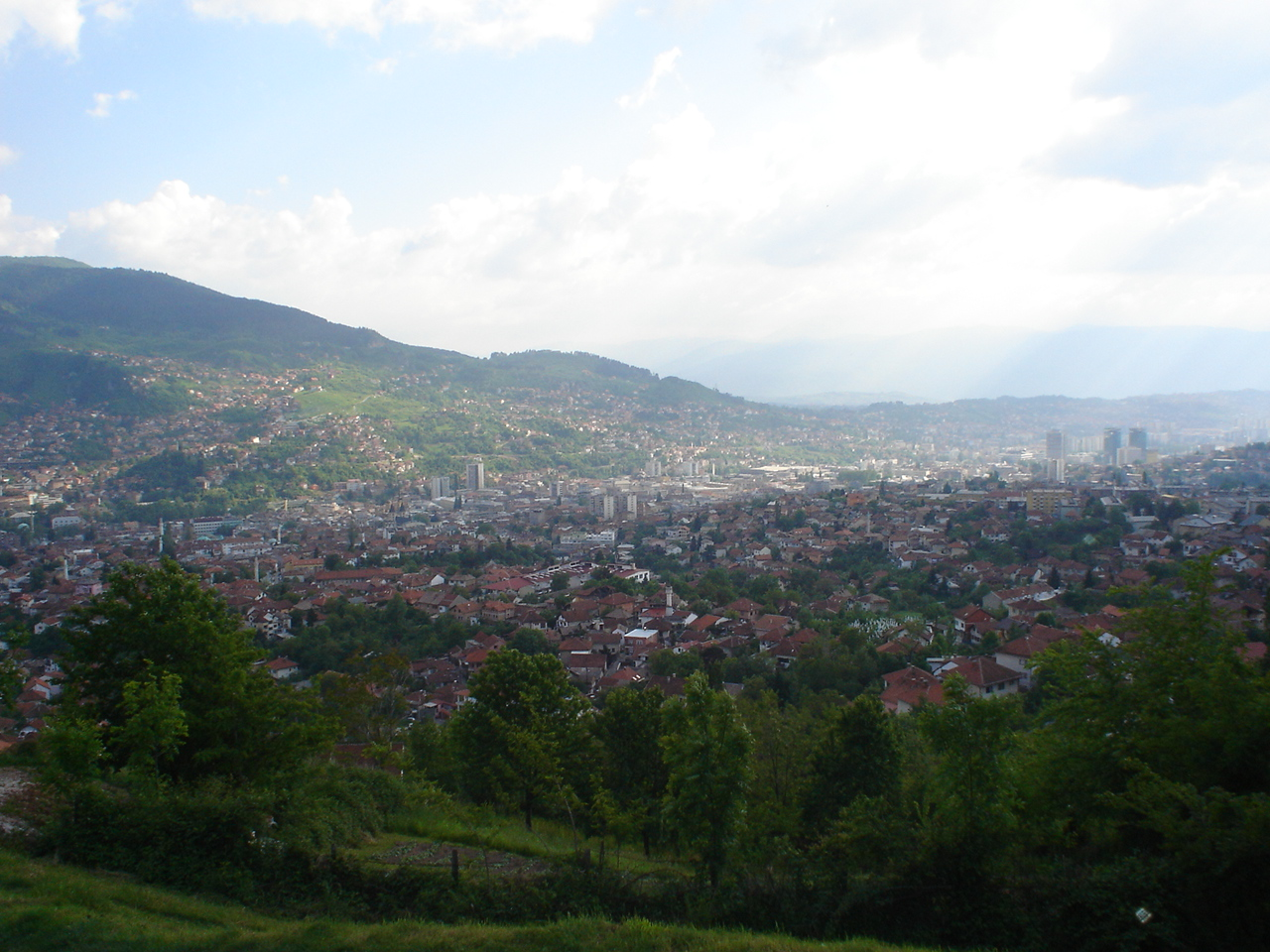 sarajevo natural ghazi